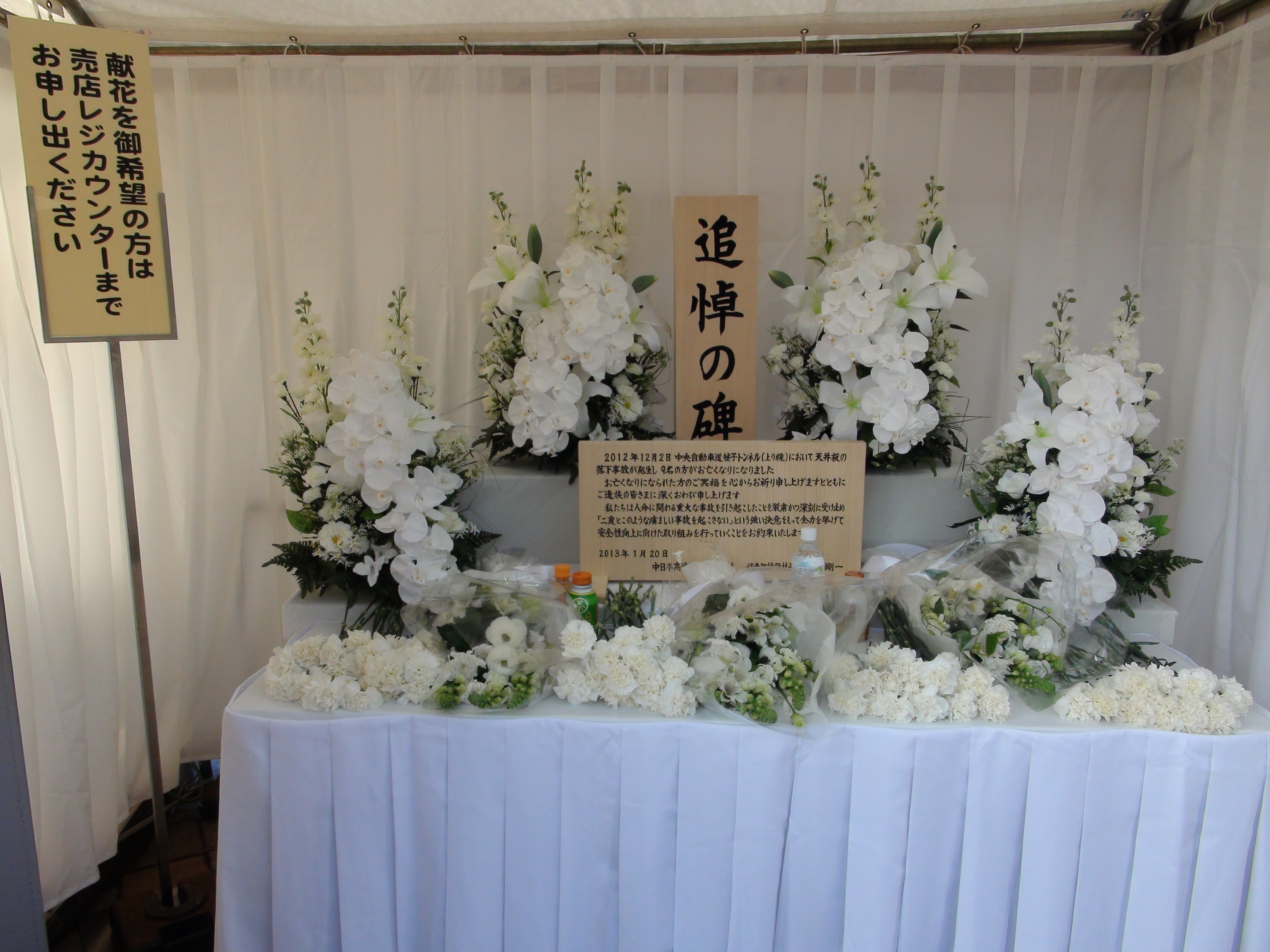 Floral tribute for Sasago tunnel accident victims.January 2103, it was installed in Hatsukari parking area.